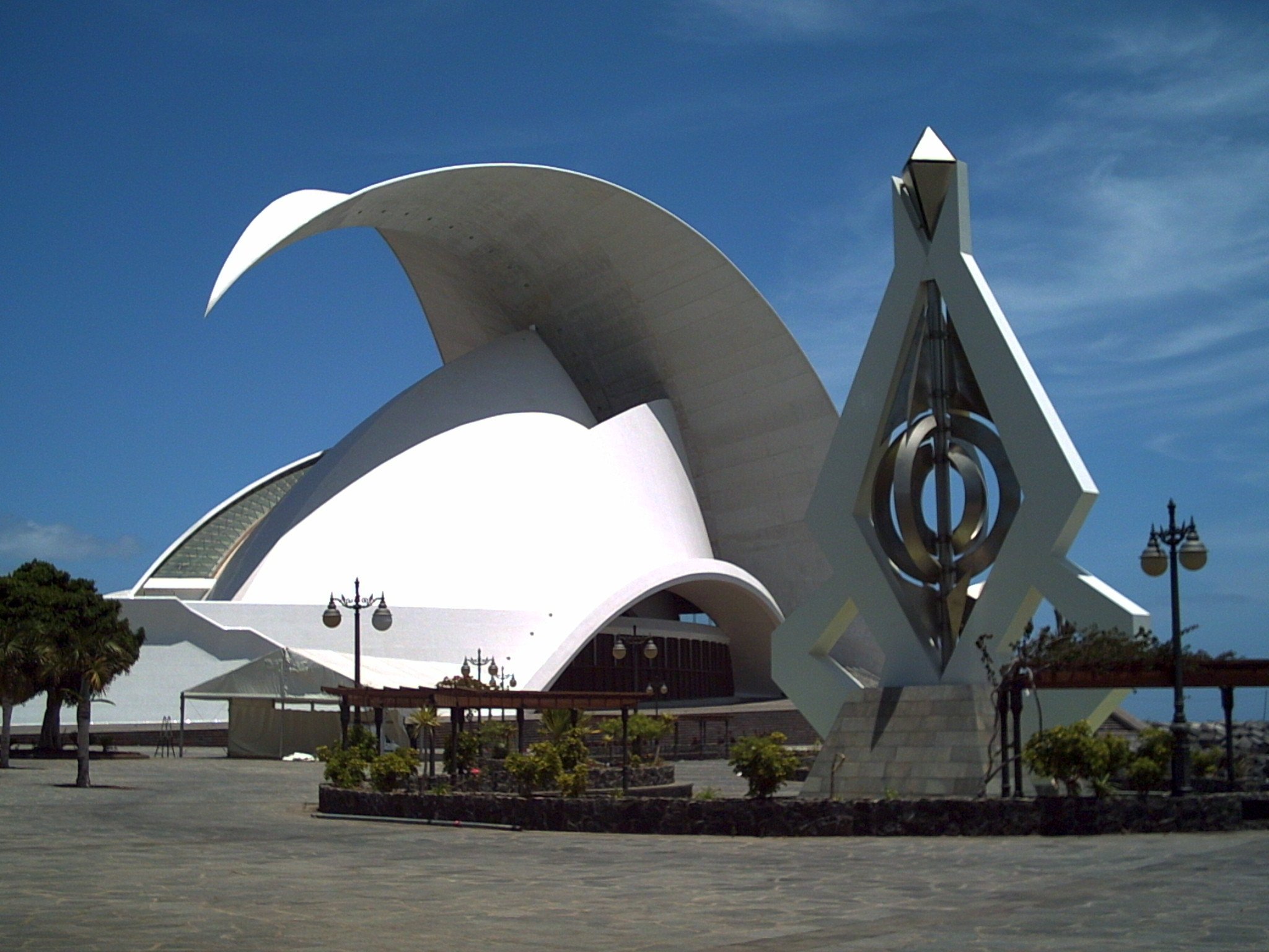 opera house 1